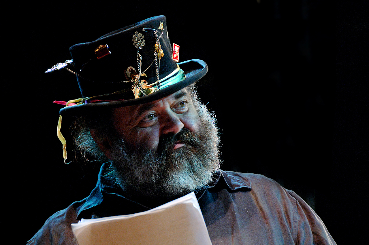 Francesco Di Giacomo of Banco (Banco del Mutuo Soccorso) at a concert in Frascati on 27 June 2009 performing "Darwin".